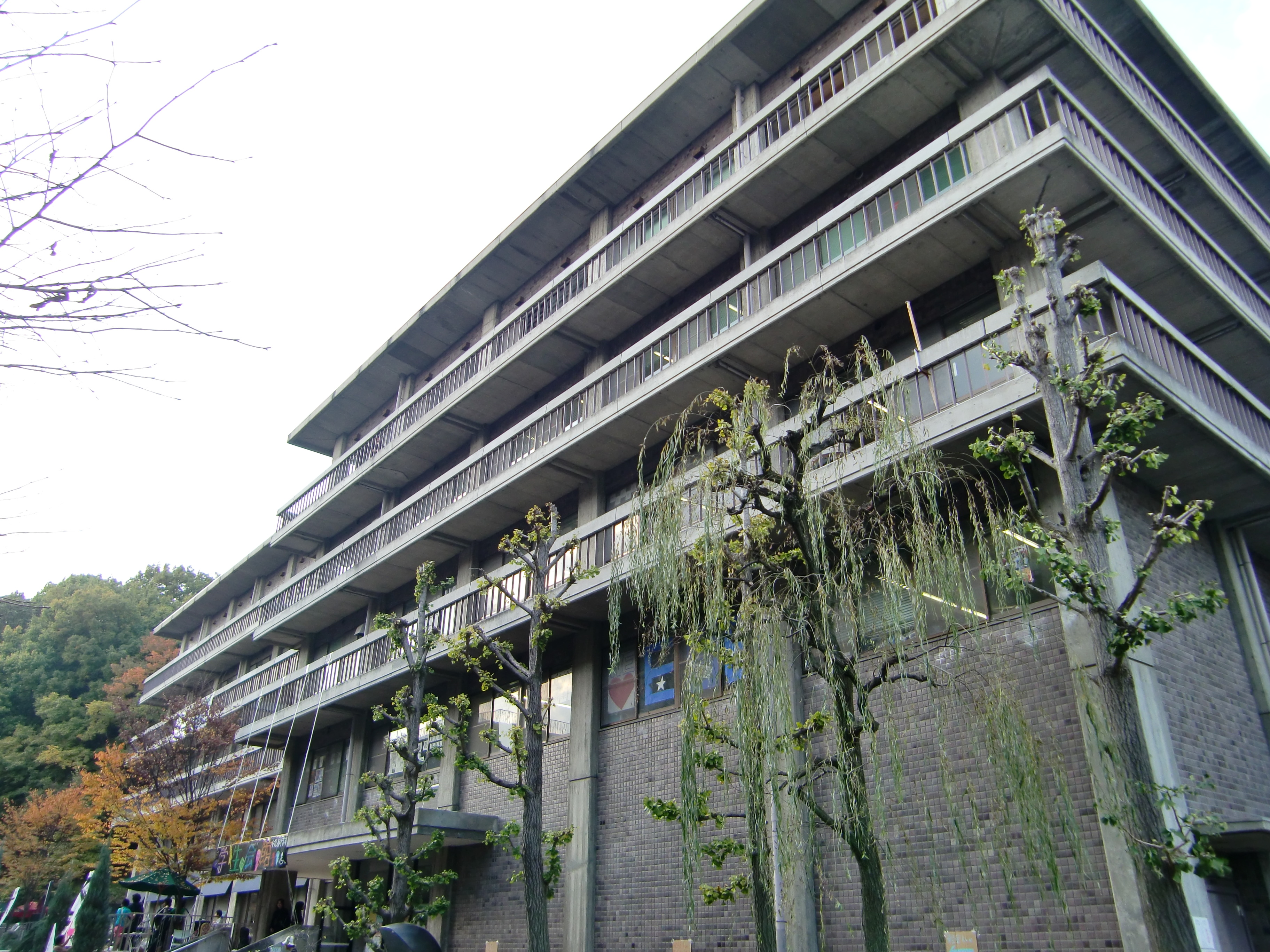 Ritsumeikan University Student Center,Tojiinkitamachi Kita-ku Kyoto-City JAPAN.